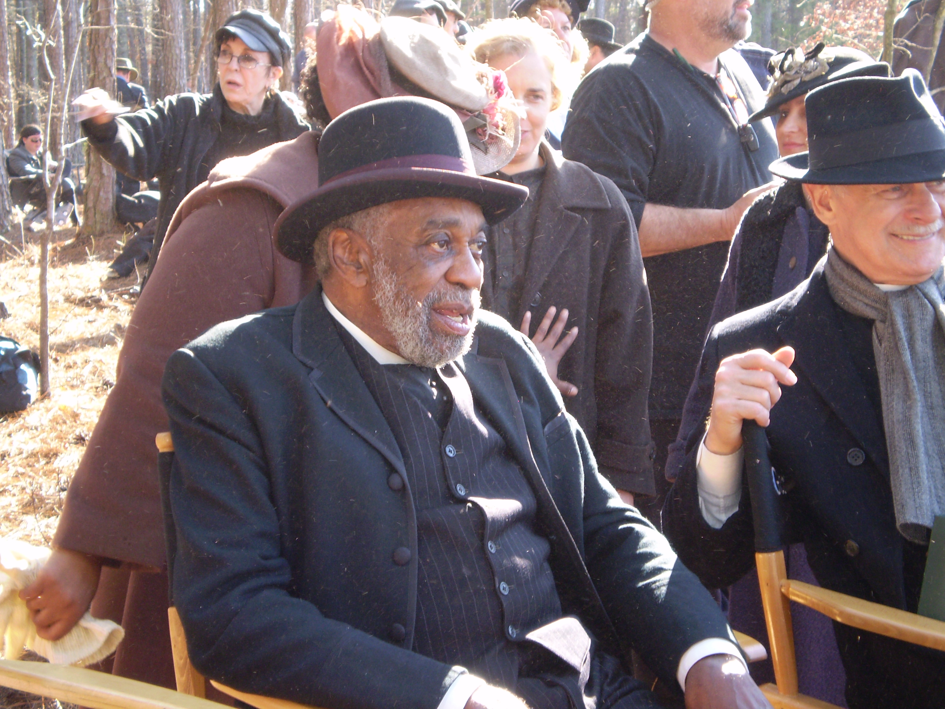 Bill Cobbs in 2009